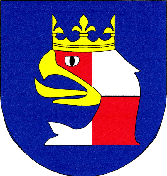 Municipal coat of arms of Velehrad village, Uherské Hradiště District, Czech Republic.